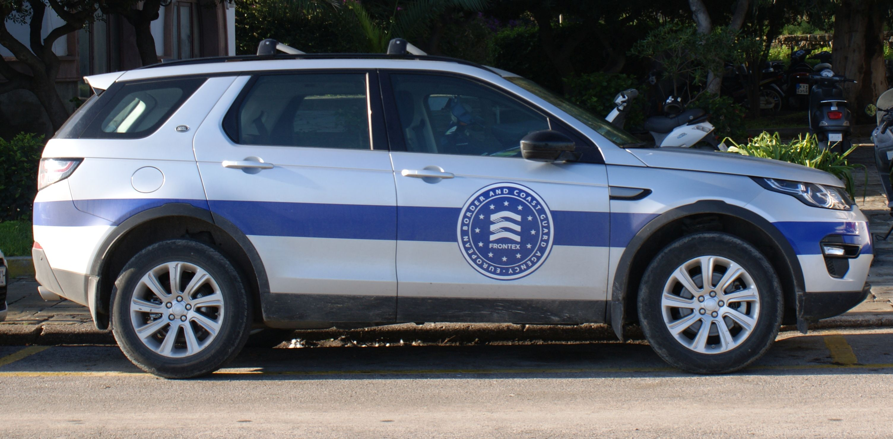 Frontex's Land Rover Discovery with a Polish license plate number in December 2019 in the city of Kos on the Greek island of Kos.